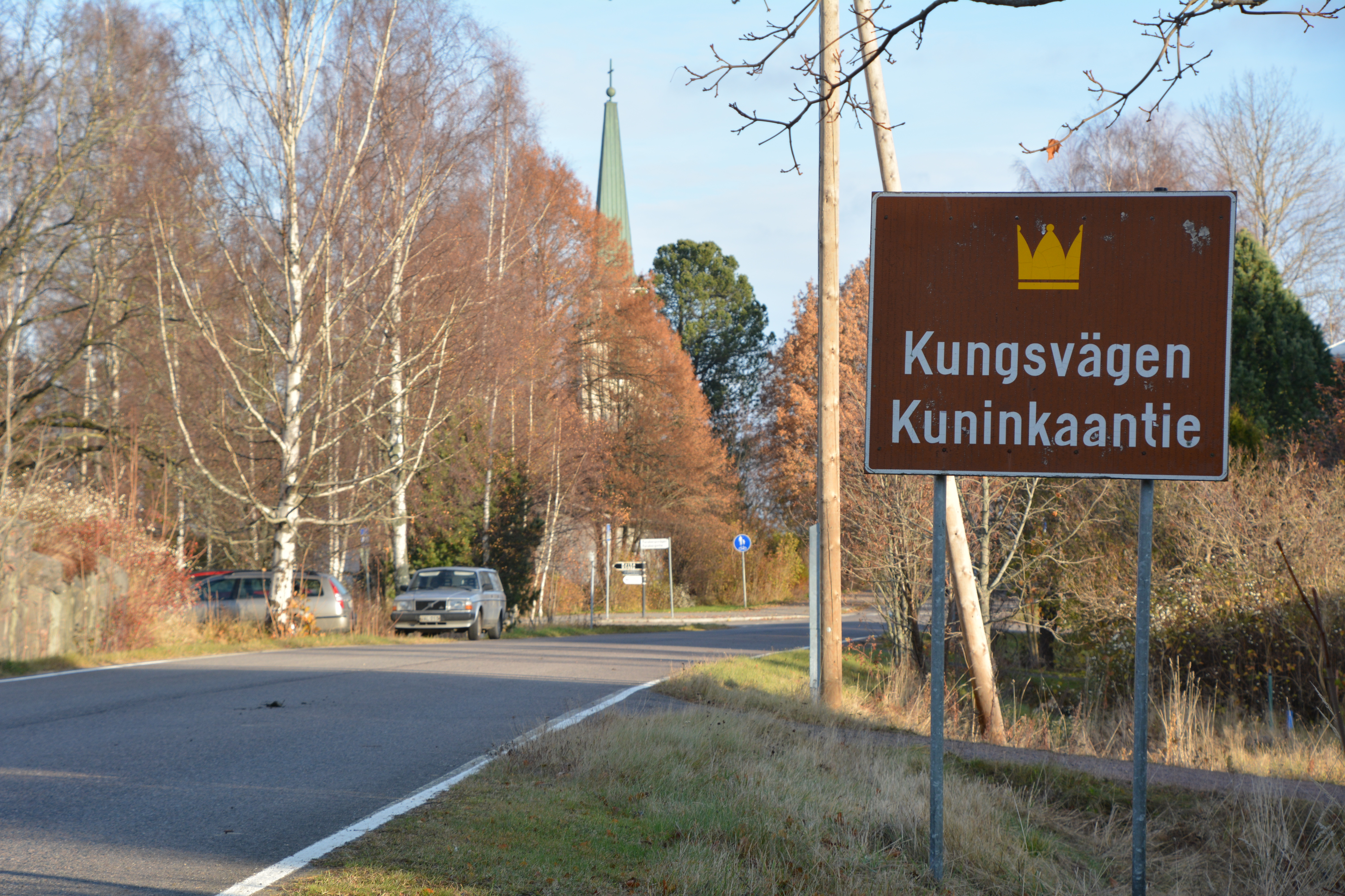 Kungsvägen (Kuninkaantie), Degerby, Inkoo, Finland